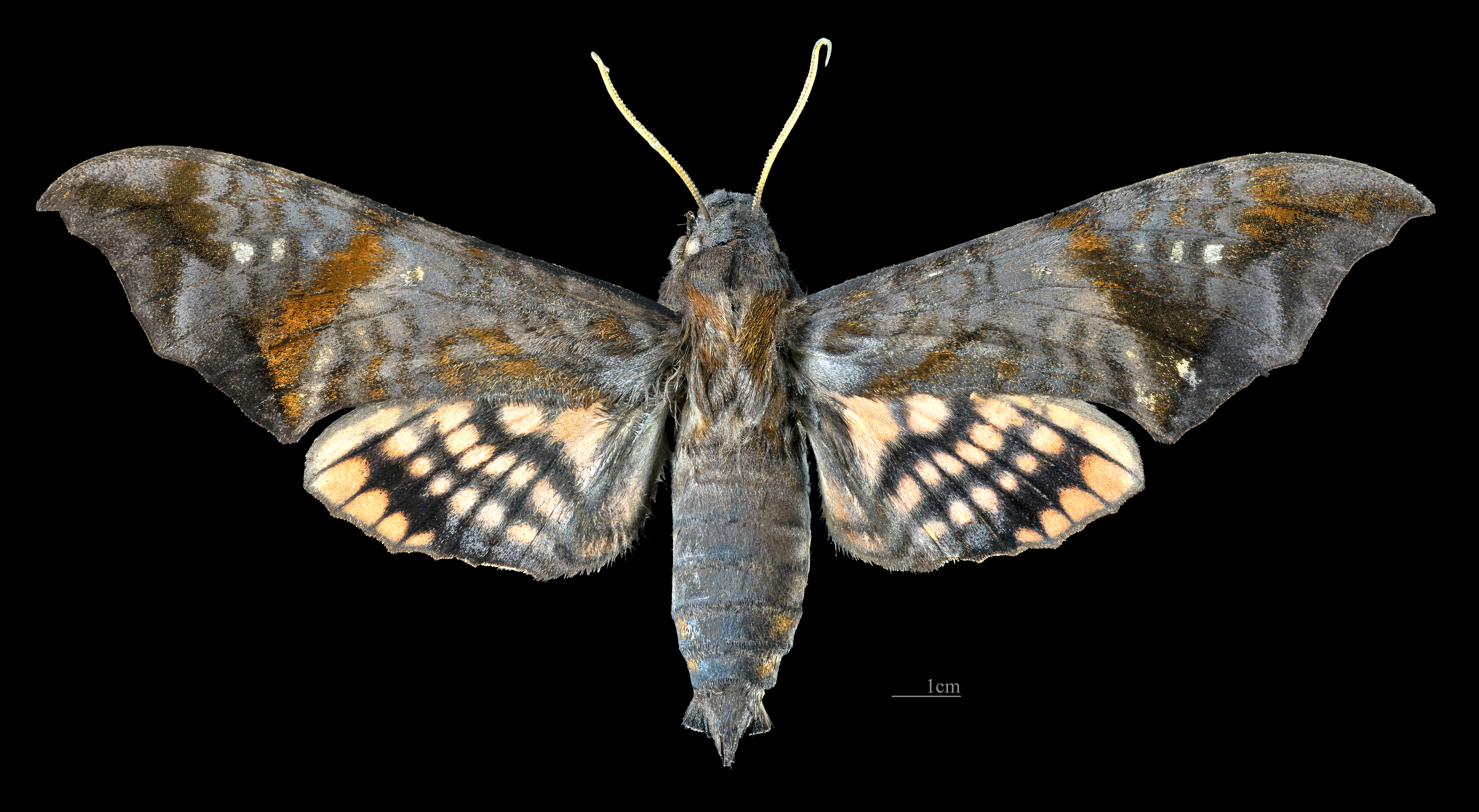 Nyceryx hyposticta - Dorsal side Collection of the Mathematician Laurent Schwartz